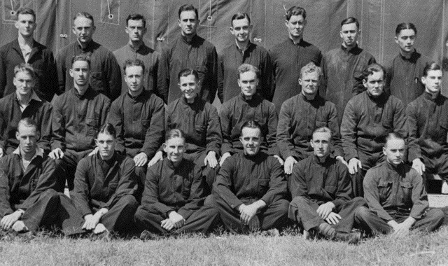 Group portrait of members of No. 2 Course, No. 1 Elementary Flying Training School, Parafield, SA. Back row, left to right: 250700 Aircraftman (AC) (later Squadron Leader (Sqn Ldr)) George Lancelot Brown; 290749 AC Donald Paramor (later Sqn Ldr); 713 AC Bruce Aitken Evans, lost on operations in the Middle East on 25 November 1941; 250748 AC (later Flight Lieutenant (Flt Lt)) William Ellis (Bill) Newton, who was later awarded the Victoria Cross (VC), and was executed by the Japanese as a Prisoner of War on 29 March 1943; 05788 AC (later Group Captain) Norman Frederick Lamb; W King; 407047 (later Sqn Ldr) Alexander Edgar Martin; 035493 AC (later Sqn Ldr) Jack Francis Mitchell. Second row, left to right: 250738 AC (later Flt Lt) James Lewis Neil MacMillan; 250756 AC (later Flt Lt) George Gordon Sprigg; D Hucker (probably 400674 Sergeant Charles Douglas Hucker (accidentally killed off the Queensland coast on 12 June 1942); probably 710 AC (later Pilot Officer (PO) Ronald Charles Dodgshun, accidentally killed at No. 2 Service Flying Training School, RAAF Wagga Wagga, NSW on 16 February 1941; 260725 AC (later Sqn Ldr) Wallace Edwin Jewell; 035892 AC (later Sqn Ldr) William Roderick Colin McCulloch; 035314 AC (later Sqn Ldr) Roger Charles MacDonald Kimpton; W Nicholls. Front row, left to right: 742 AC (later Flying Officer (FO)) James Andrew McIntosh, who was lost on operations in the Ain En Naga area, Middle East, 23 January 1945; 290745 AC (later FO) Francis Norman Meyer, later of 13 Squadron, who was taken Prisoner of War (POW) by the Japanese and executed around 6-8 February 1942; 250694 AC (later Flt Lt) Robert Samuel Creagh Brindley; 3207 or 706 AC (later Flt Lt) Arthur Cole Tooley; 250731 AC (later Sqn Ldr) Ian Robert Kinross; B Hughes.